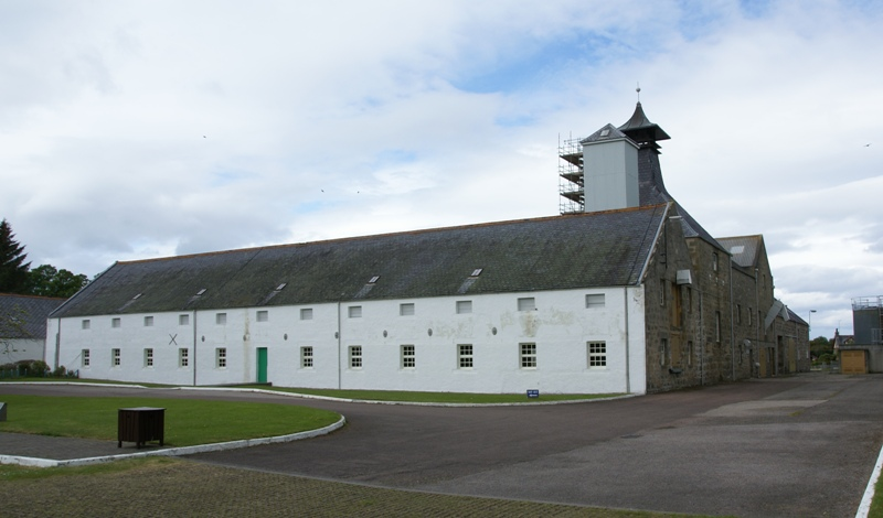 Dallas Dhu Distillery, Moray, Scotland